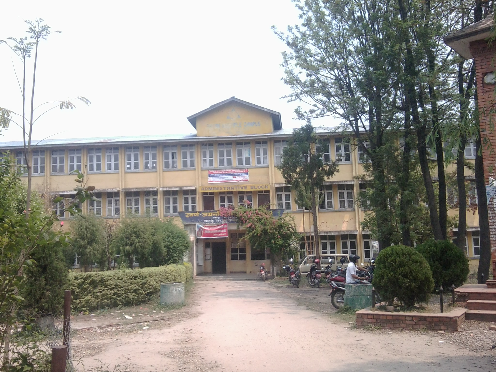 Patan multiple campus administrative building.